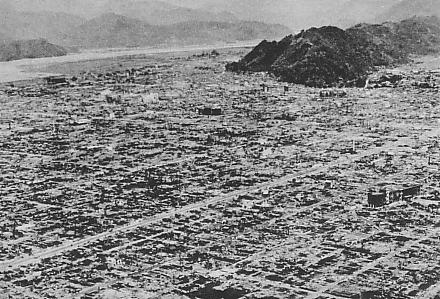 Shizuoka after the 1945 air raid